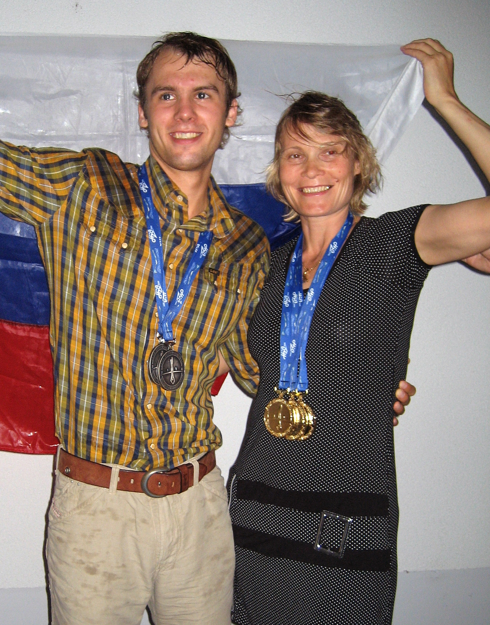 Alexey & Natalia Molchanova, Slovenia, Maribor, freediving World Championship, 2007